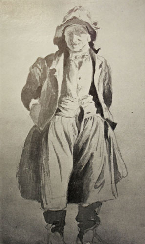 This watercolour study is undated but was probably made c.1830 in Cullercoats, Northumberland